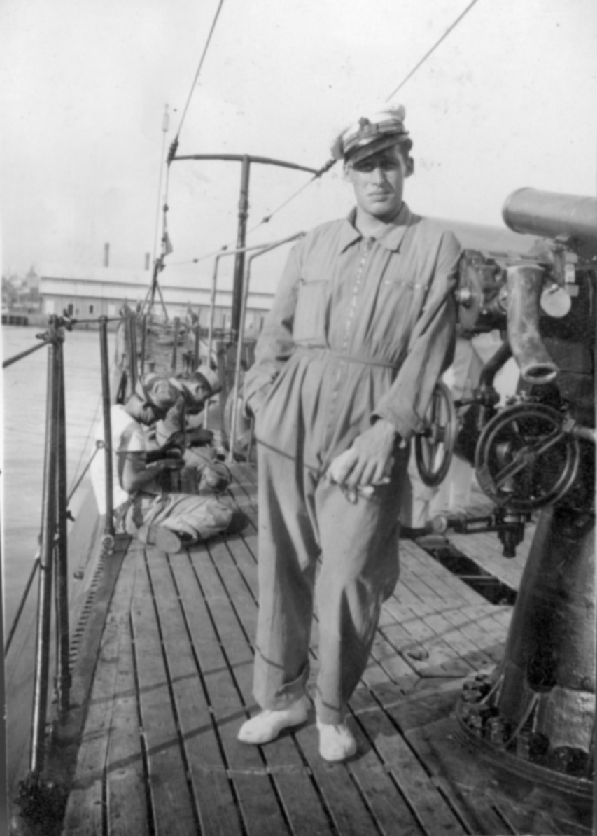 Umberto Bardelli anni '30